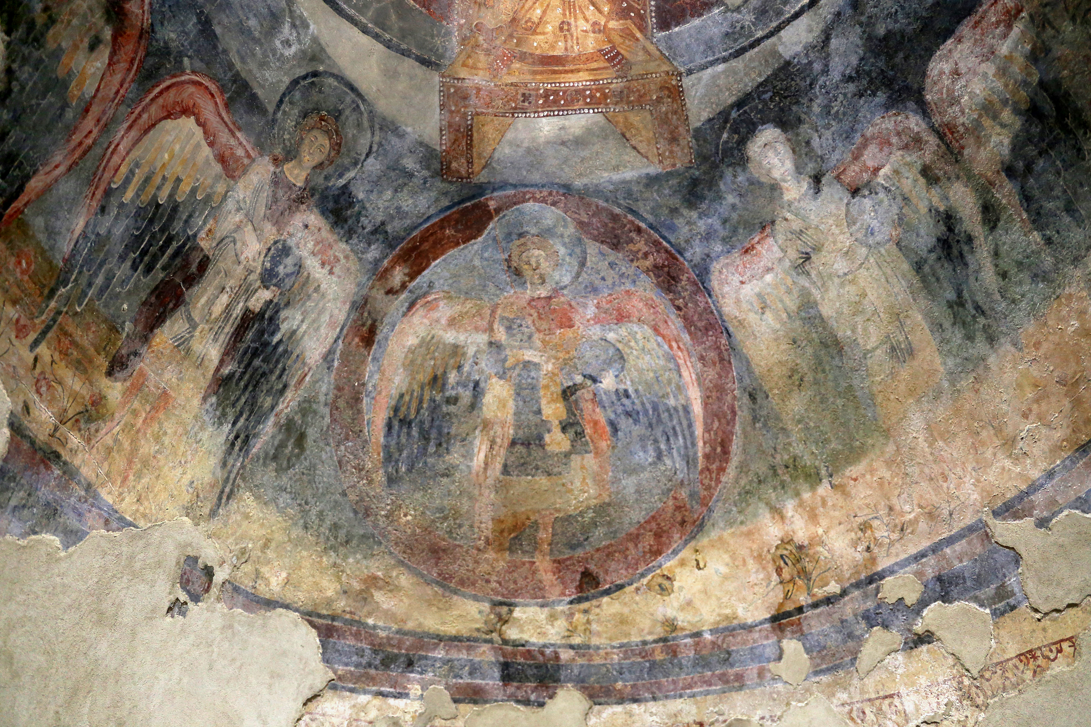 Epifanio Crypt